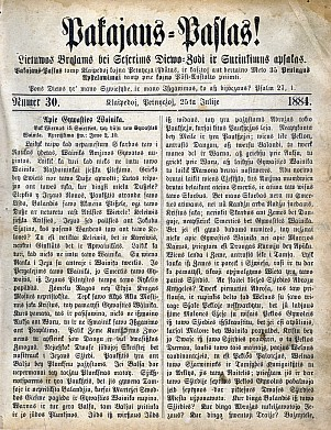 Vaizdas:Pakajaus paslas 1884.jpg